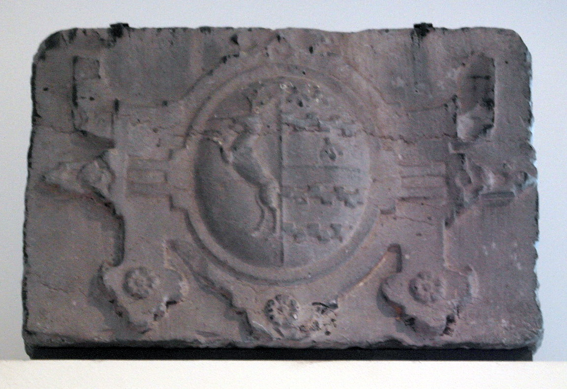 Relief of the coat of arms of Jean Curtius, weapon merchant in Liège (17th c), in Museum Grand Curtius, Liège, Belgium.